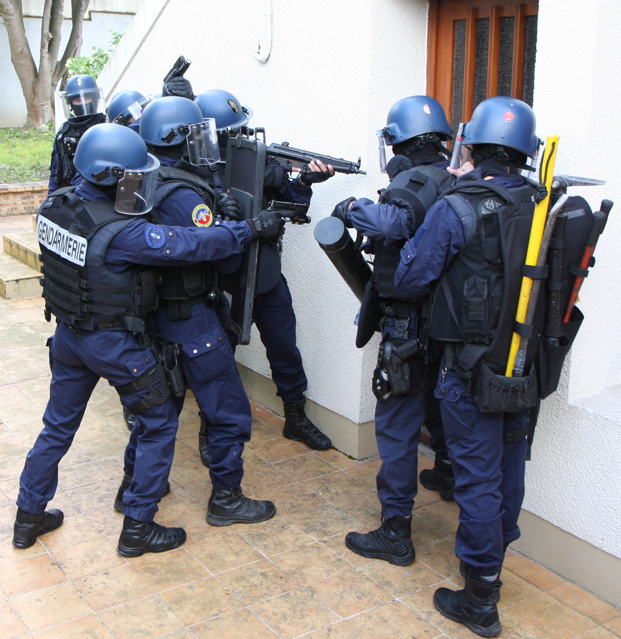 French Garde républicaine PIGR (SWAT) team practice